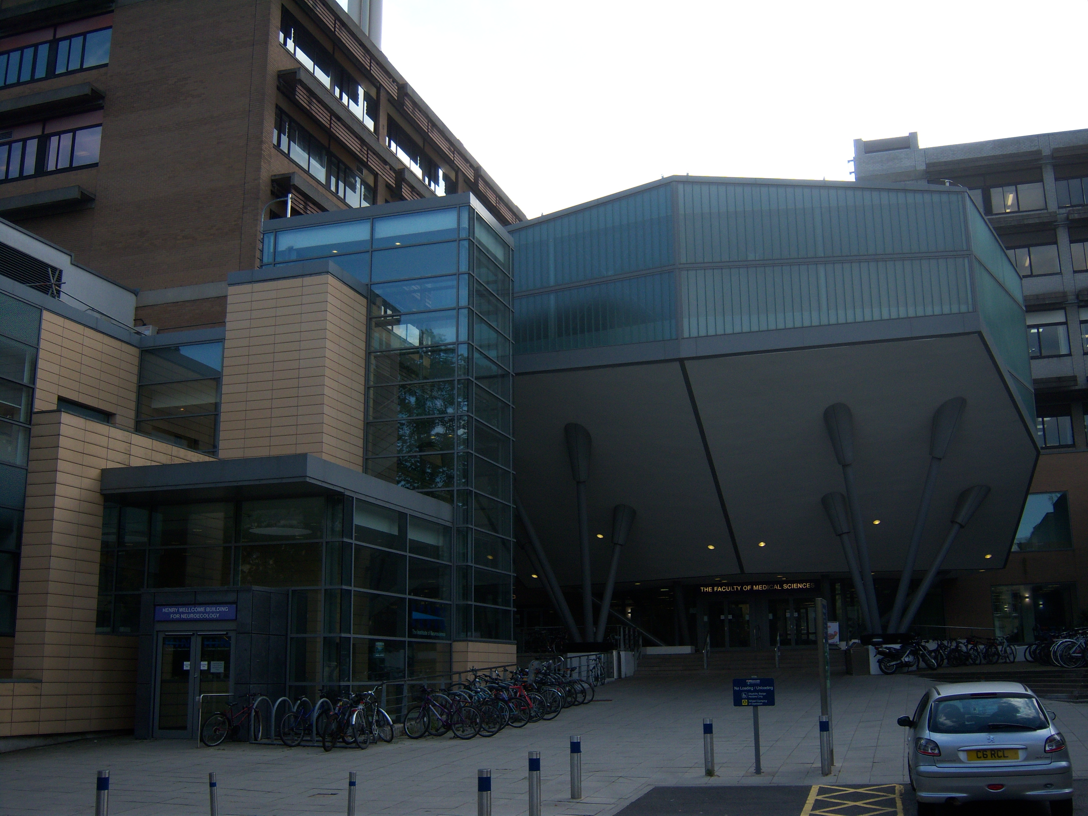 Medical faculty, Newcastle University. The main entrance to the faculty is here on the north side, beneath the David Shaw Lecture Theatre. The Henry Wellcome Building (lower) & Catherine Cookson Building (higher) are on the left.